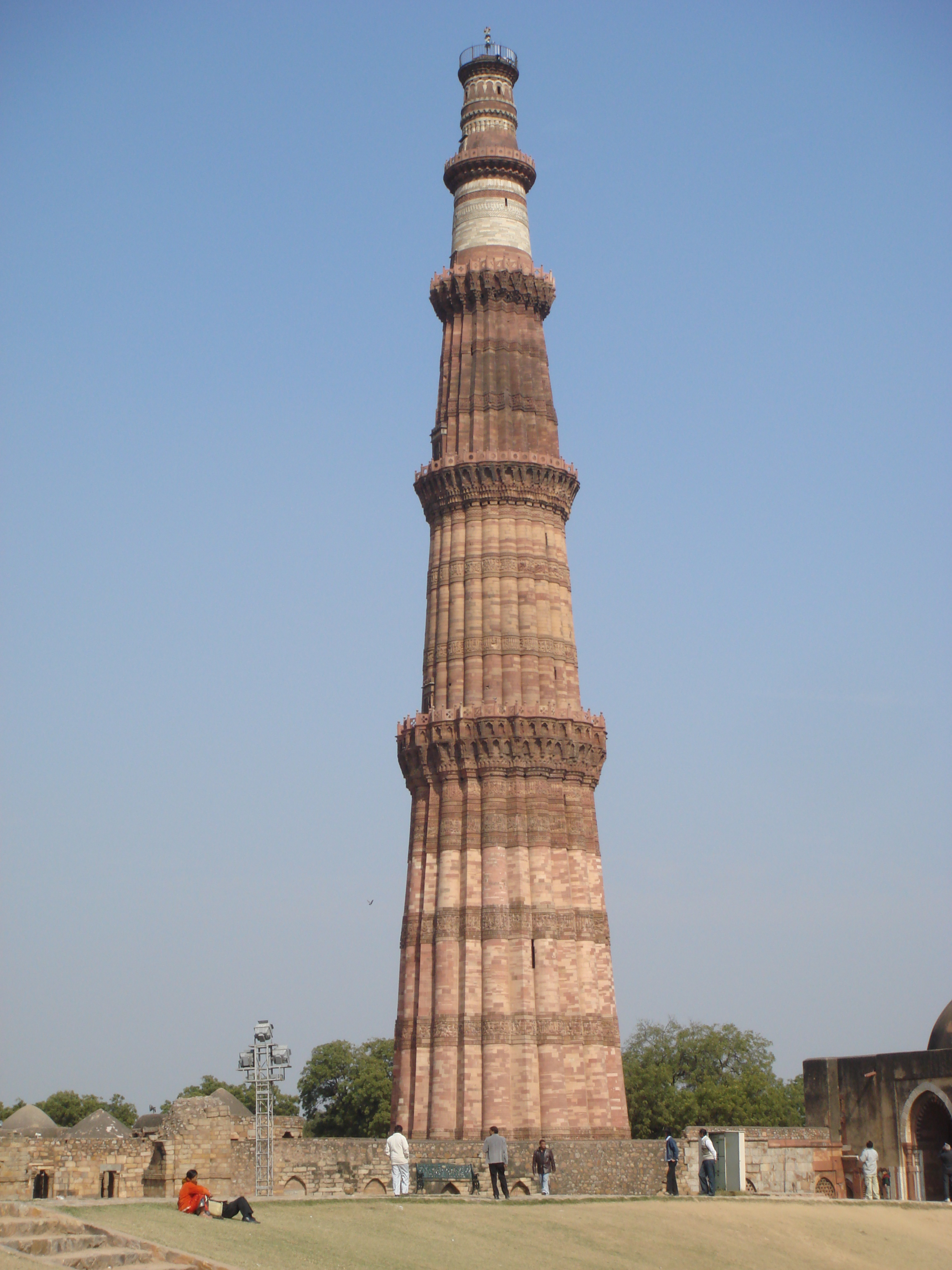 The Quwwat-ul-Islam mosque's Qutb Minar (Delhi, India).